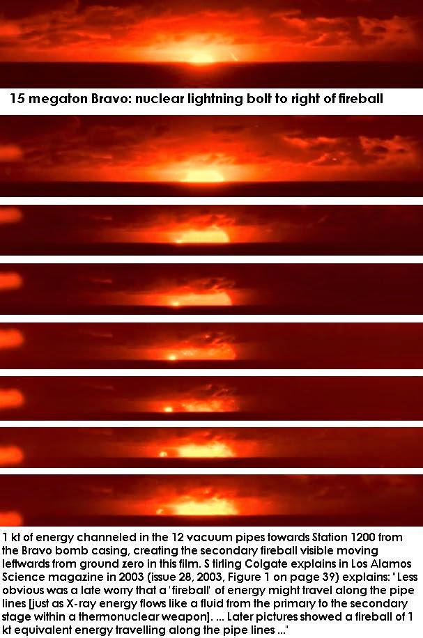 vacuum pipe lines (long pipe lines from which the air had been removed) 4 kilometers long were used to give a highly collimated view of the nuclear reactions on an adjacent island. The transport of the energetic x-rays and neutrons upon arrival at the diagnostic station 1200, having passed through the multiple vacuum lines, generated a ~ 1 kiloton of TNT equivalent explosion.